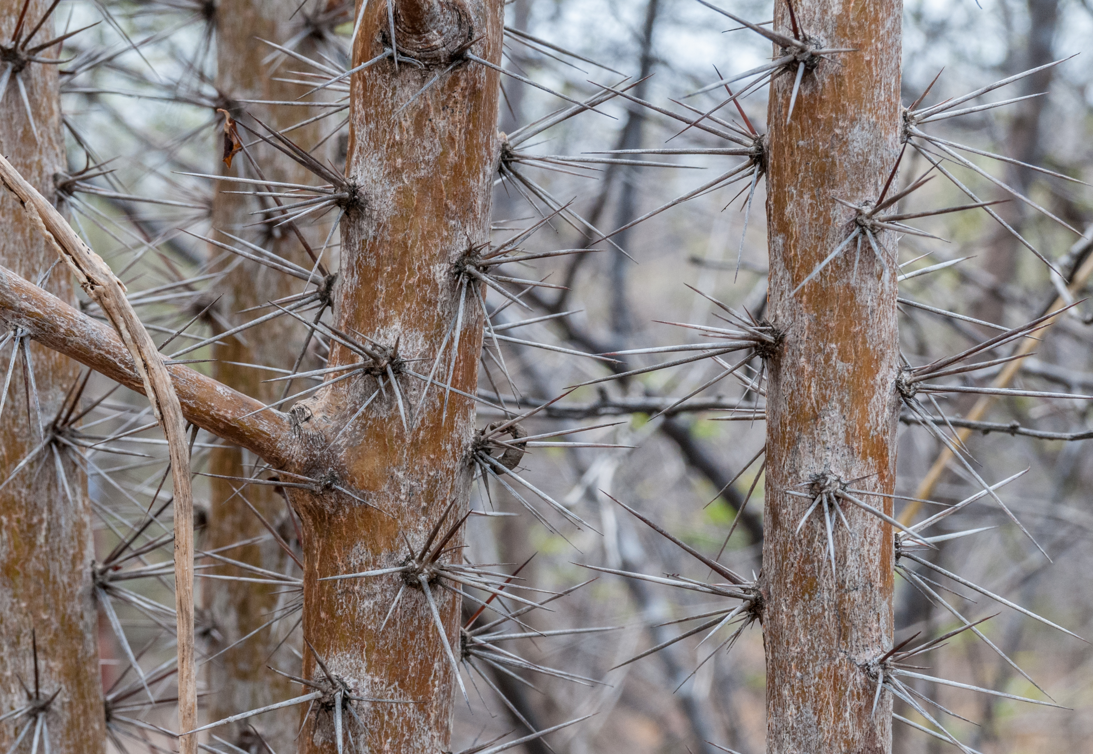 Leuenbergeria guamacho in Isla Margarita, Nueva Esparta, Venezuela